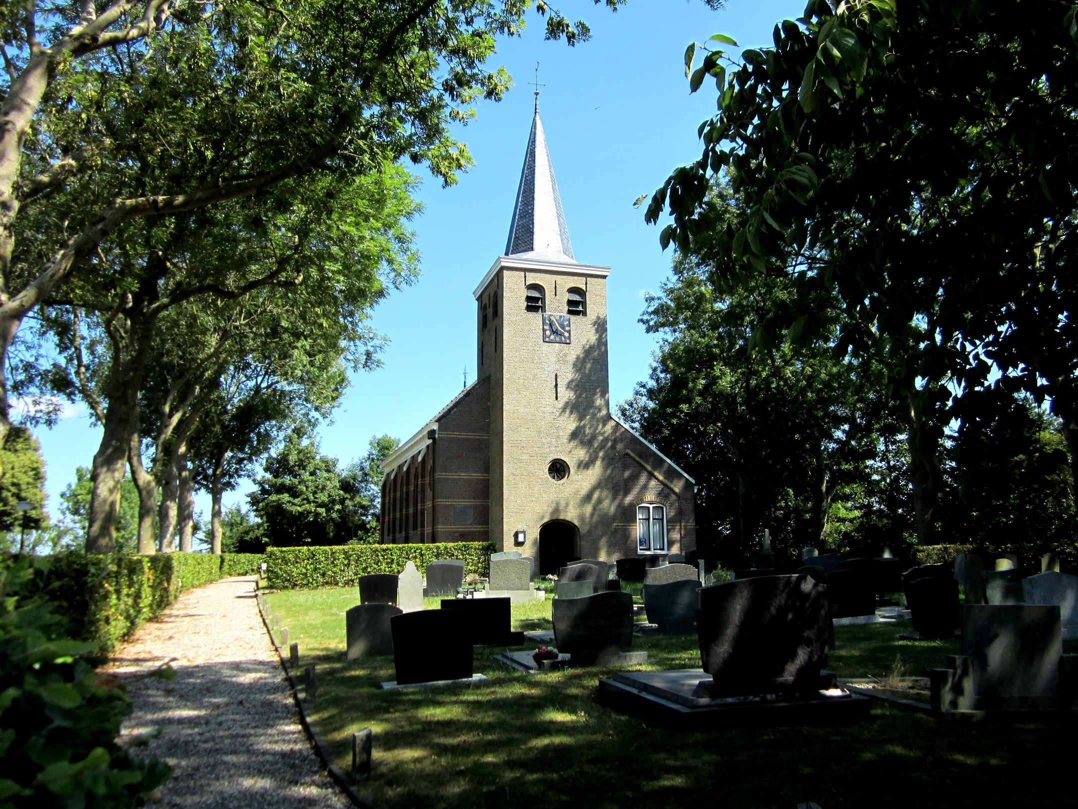 The village church of Hitzum (Frisian: Hitsum), Friesland, the Netherlands.